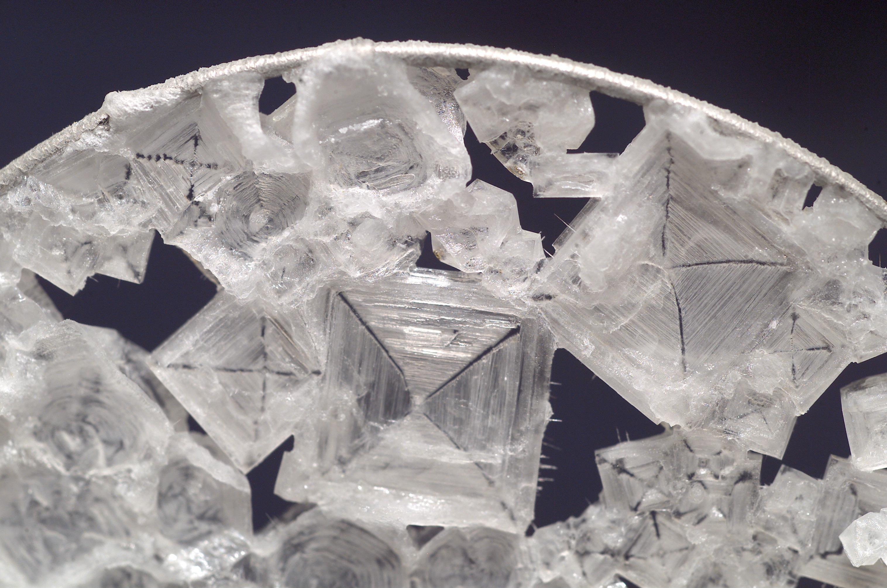 Looking for all the world like a snowflake, this is actually a close up view of sodium chloride crystals. The crystals are in a water bubble within a 50-millimetre metal loop that was part of an experiment in the Destiny laboratory aboard the International Space Station.